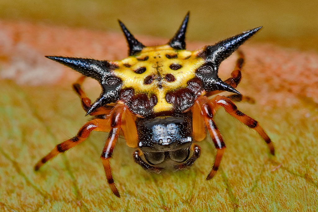 Hasselt's spiny orbweaver spider (Gasteracantha hasselti). Found this along with my macro photography group while trudging along the paved trail at the entrance of Pasir Ris Park, Singapore. It caught the attention of a few in our group. Looks mighty harmful here with all those jutting spikes from its body. These type of spiders have that distinct thorns or spikes jutting out of their abdomen. They do bite (good thing we did not really touch it or else we'll get a nasty ant-like potent bite) but their bites are generally harmless.